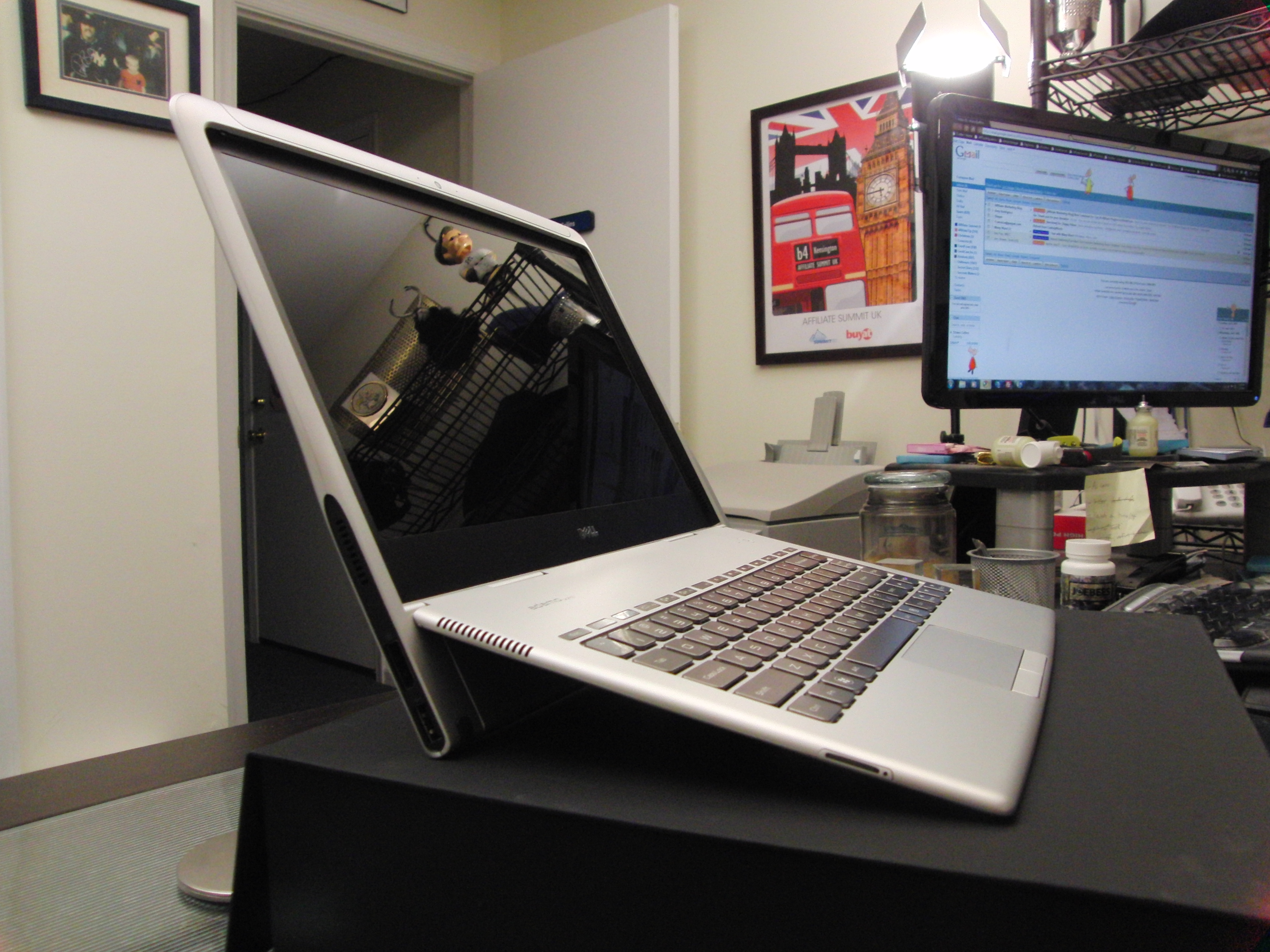 The Dell Adamo XPS is just 9.99mm thin and weighs 3.2 lbs. It's got a 13.4-inch widescreen 16:9 HD display, 1.4GHz Intel Core 2 Duo ULV processor, 4GB of DDR3 RAM, and 128GB solid state drive. More details at